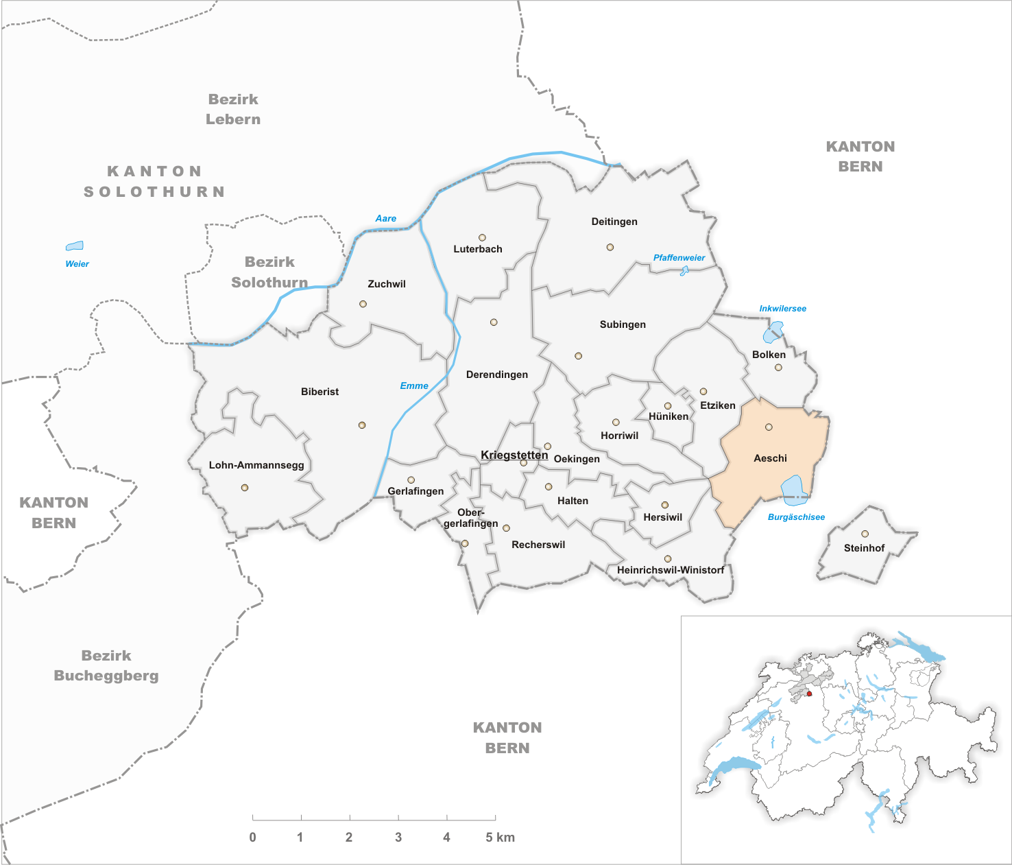 Municipality Aeschi